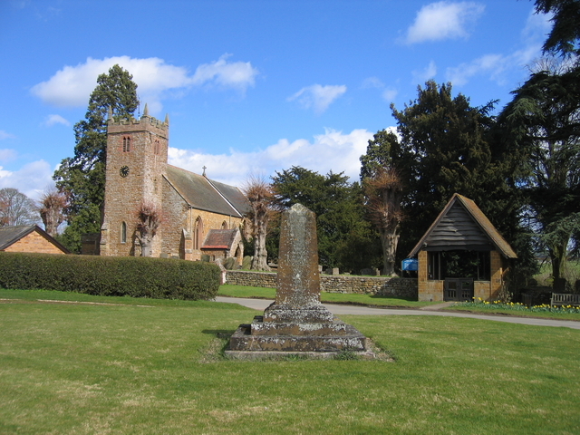 Priors Hardwick, Warwickshire: the War Memorial, with St Mary the Virgin parish church in the background